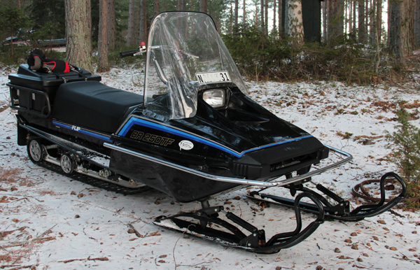 1989 Yamaha BR 250 TF (Bravo) with the FLIP bogie.